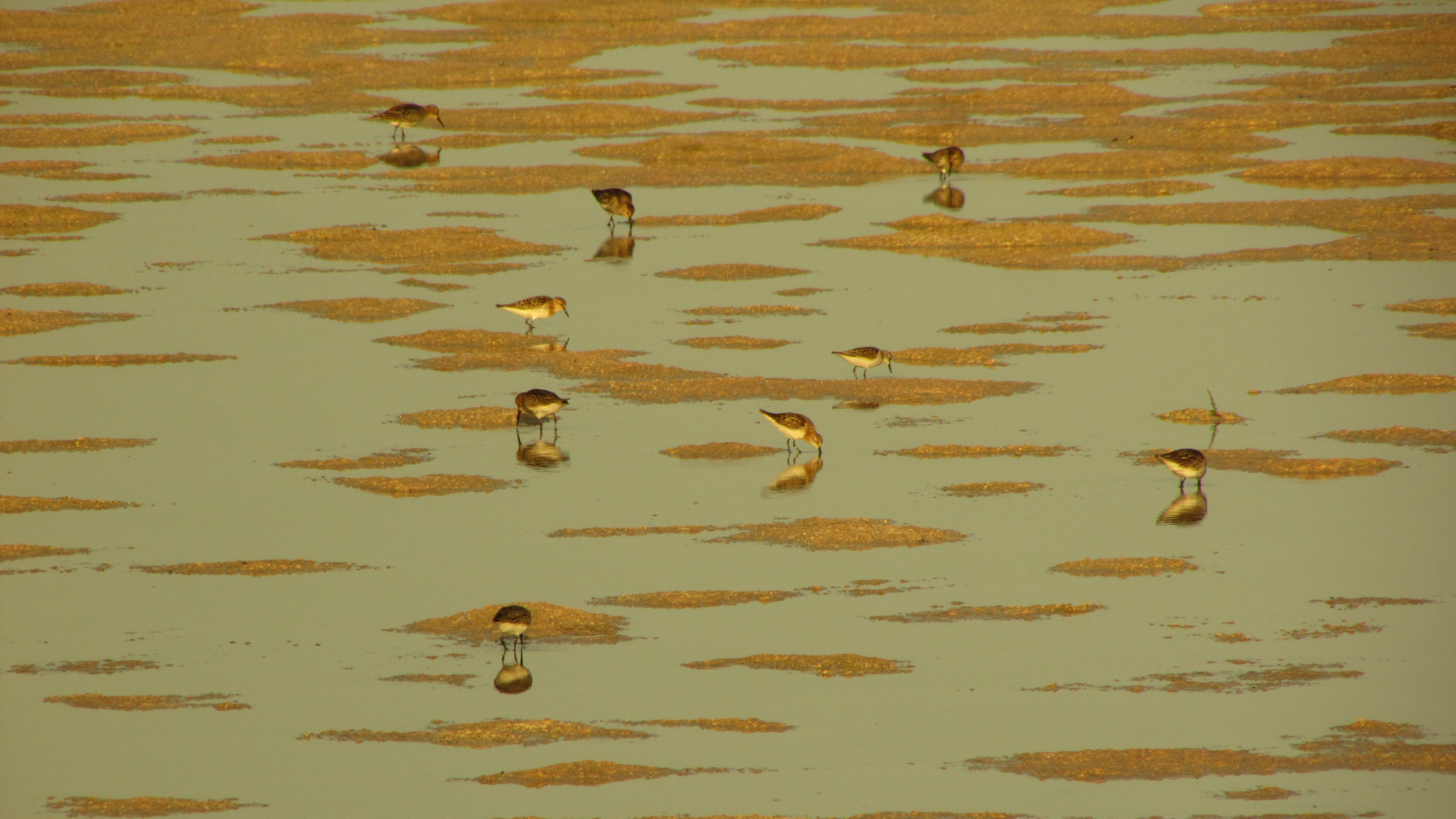 Dunlins Calidris alpina and Little Stints Calidris minuta, Paraje Natural Punta Entinas Sabinar, Andalusia, Spain